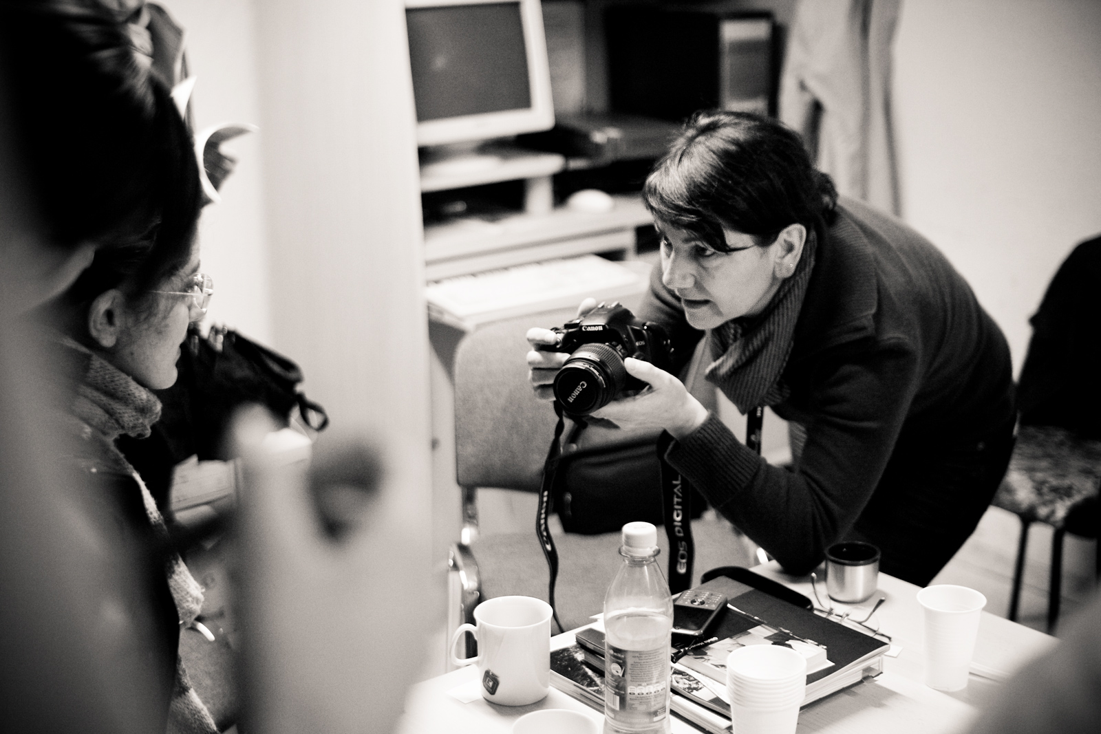 Olivia Heussler and her photography workgroup during ISWI